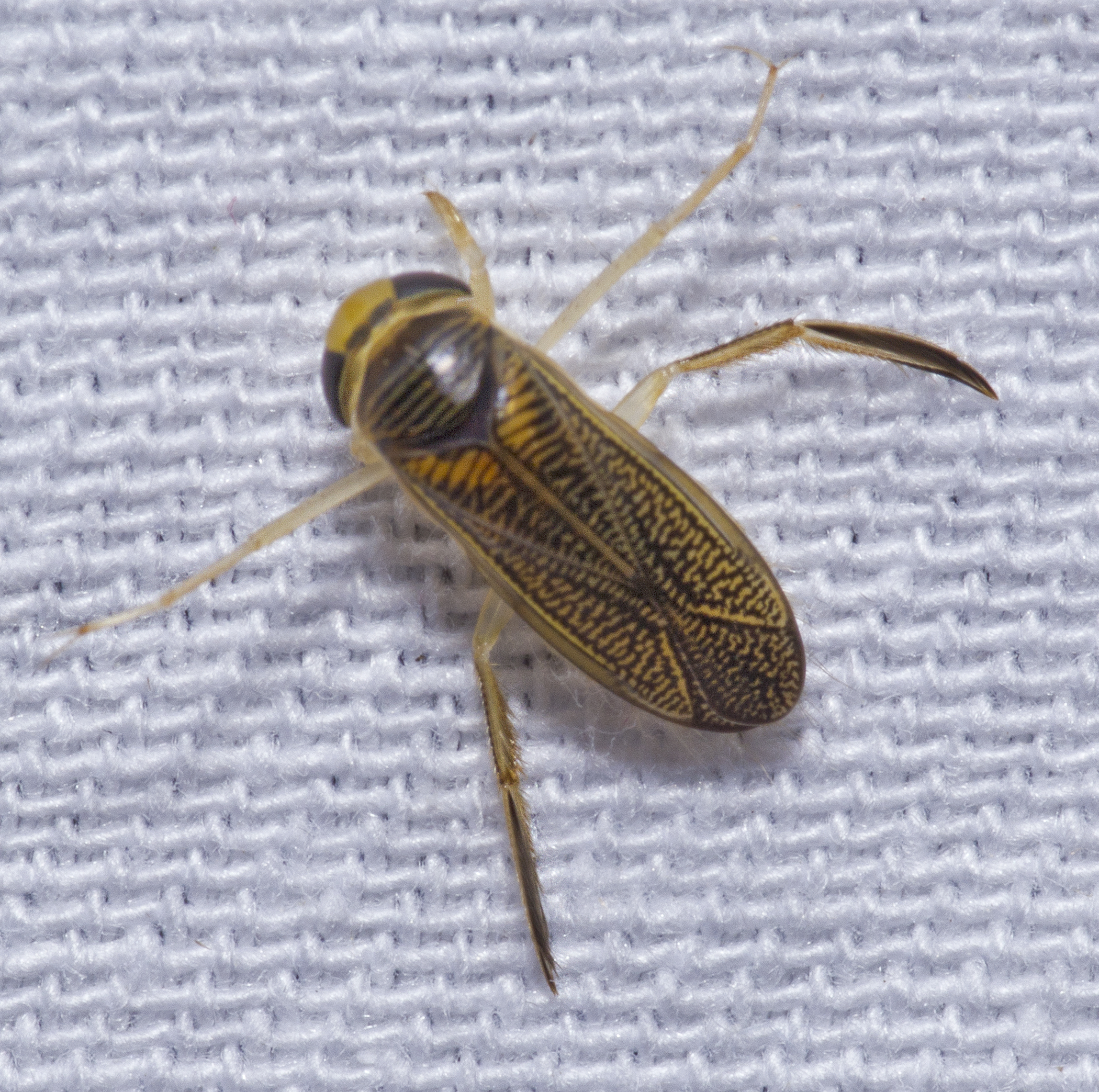 While watching TV on a warm summer evening I like to leave the curtains open so I can watch the bats swooping outside. Not very fuel efficient bats - some need to eat their own body weight in insects each night. That's a heck of a lot of midges, rather fewer large moths. So recently I took the plunge and built myself a light trap (investing a whole £4.95 in a blacklight banknote checker from eBay - works great with a white sheet draped over a lawn chair). It's only when you run a light trap in your garden that you realize the thick soup of aerial plankton that's out there in the dark. Not just moths, but also lots of things you don't think about such as water beetles, caddisflies and water boatmen.